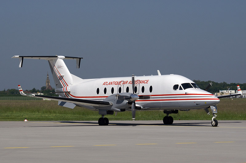 Atlantique Air Assistance Beechcraft B1900D